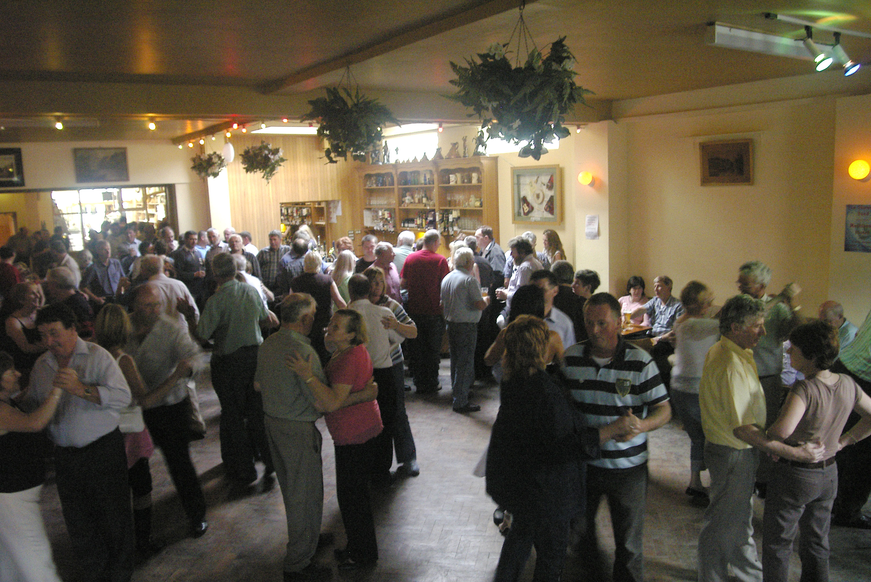 Daytime dancing September 2006 Lisdoonvarna, Co. Clare, Ireland, Danny Burke